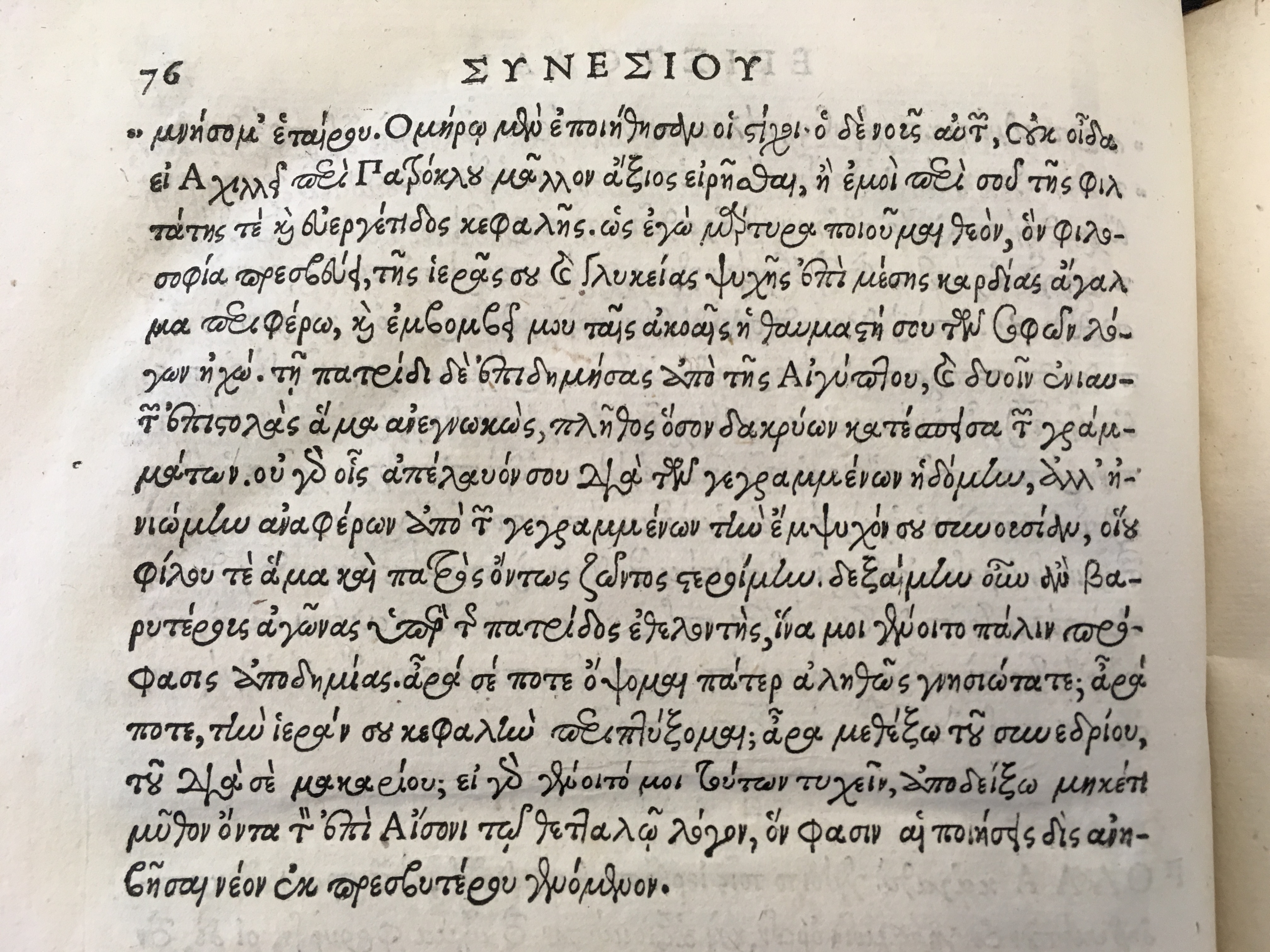 This is a photograph of the second page of the second of the two letters to Hypatia included in the first print edition of Synesius' works (edited and printed by Adrian Turnèbe in 1553). This photograph was taken at the Institute Archives of the Massachusetts Institute of Technology.